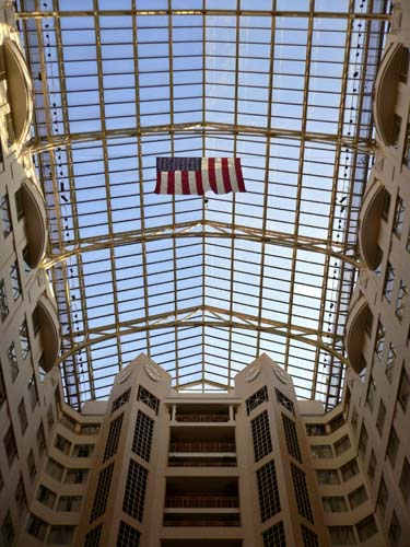 Grand Hyatt hotel, Washington DC.